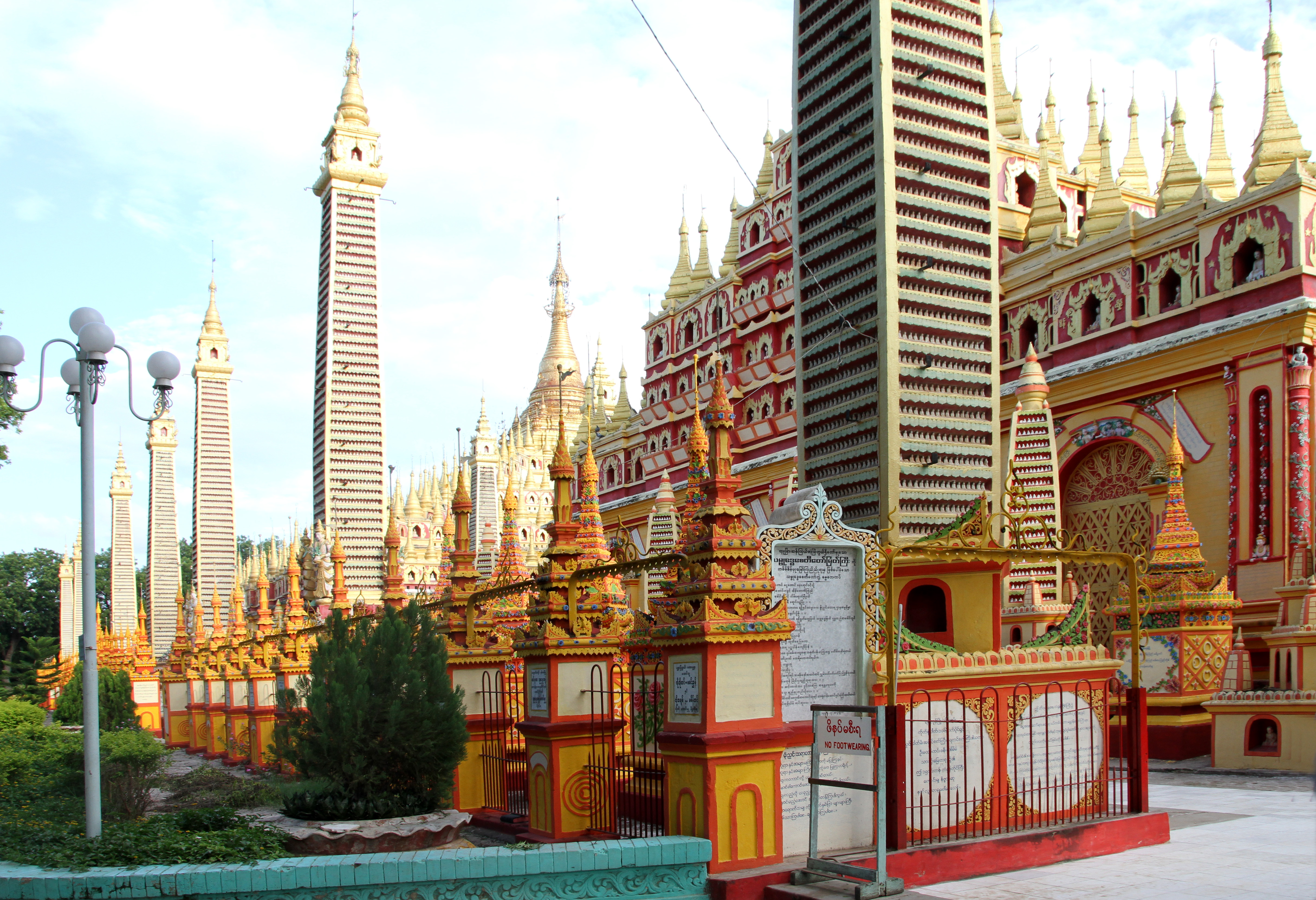 Thanboddhay pagoda in Monywa in Myanmar